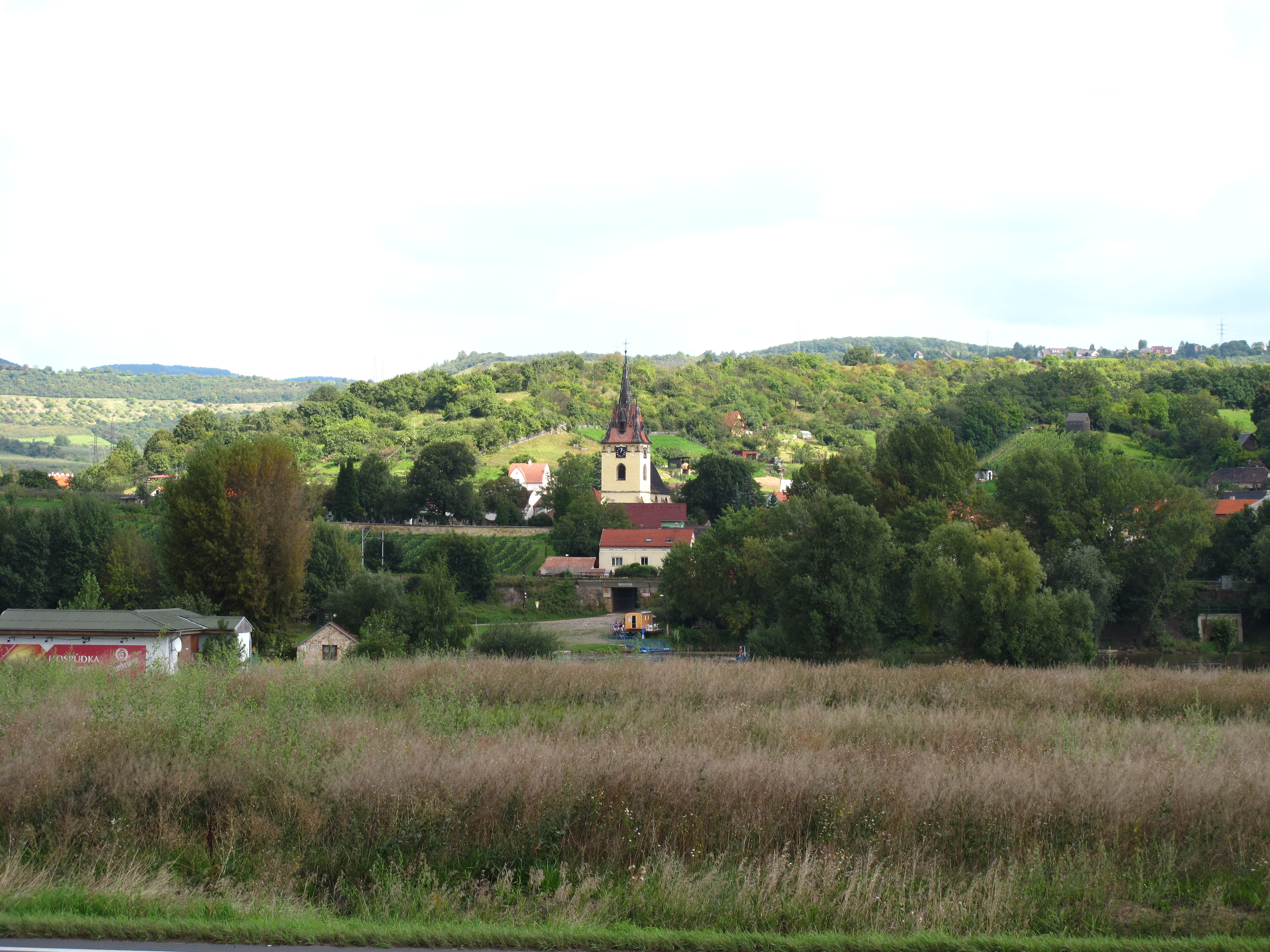 Velké Žernoseky village as seen from the left bank of Elbe, Litoměřice District, Czech Republic.